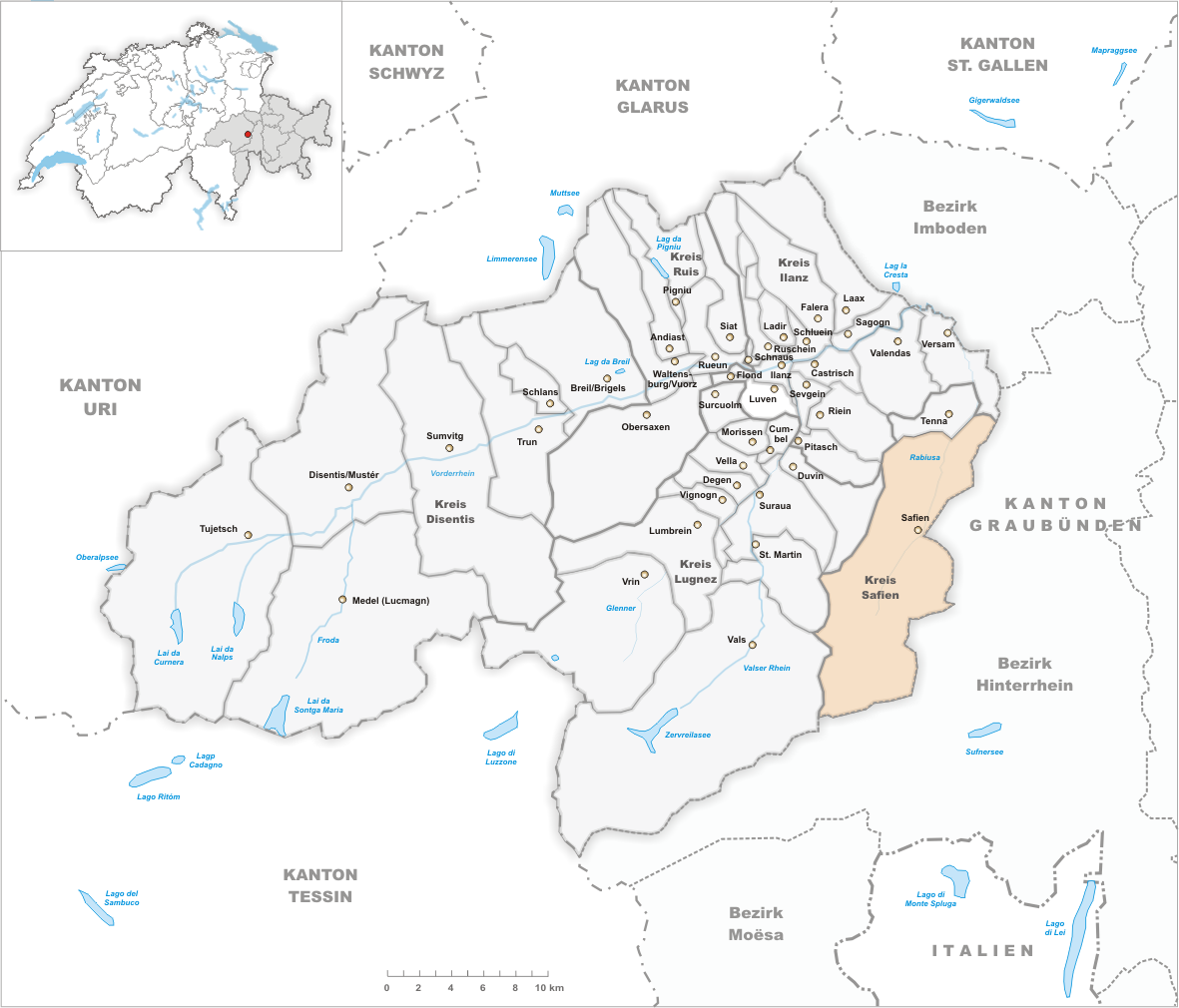 Municipality Safien